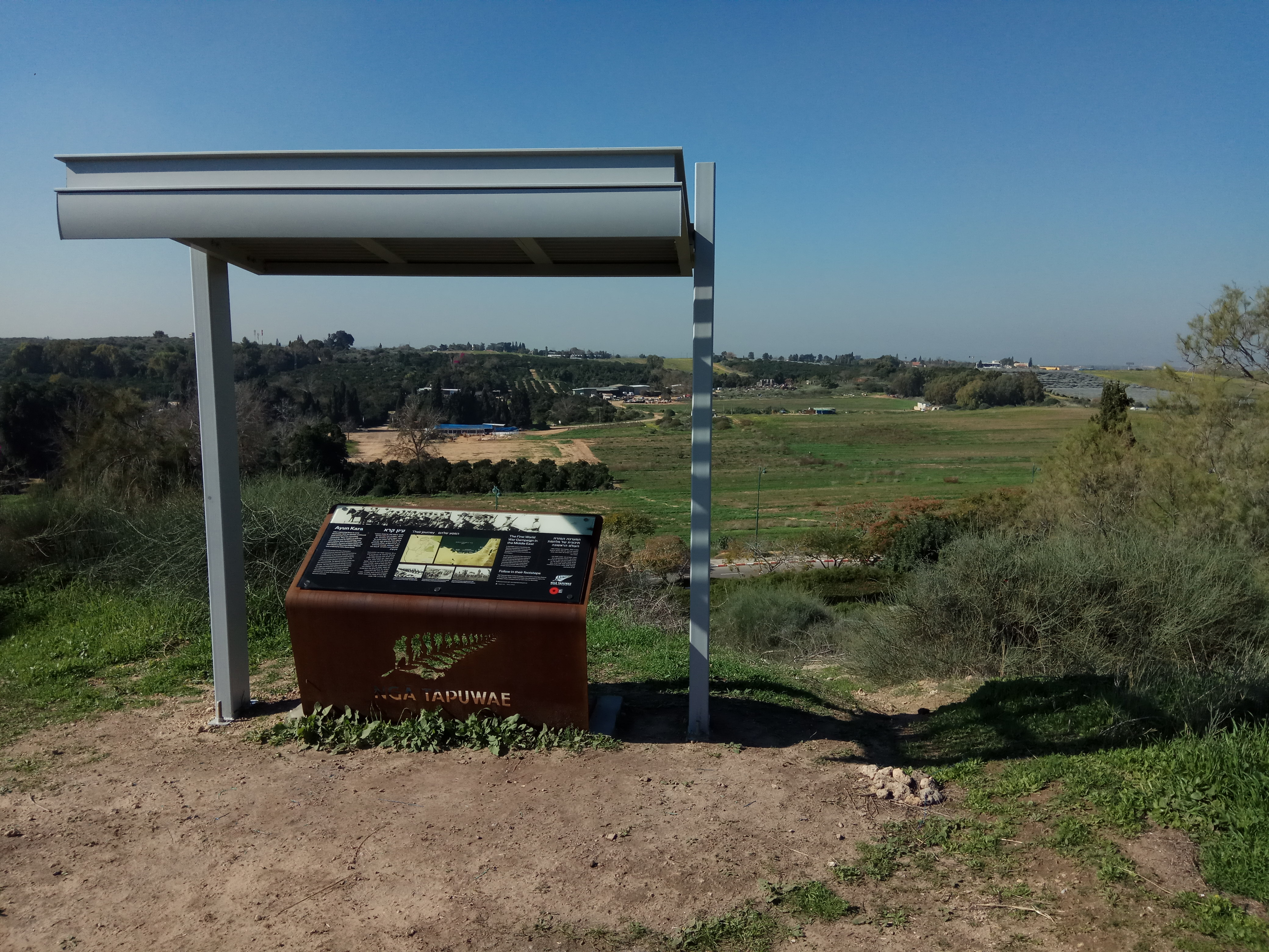 The New Zealand Cavalry Observation Point in Ness